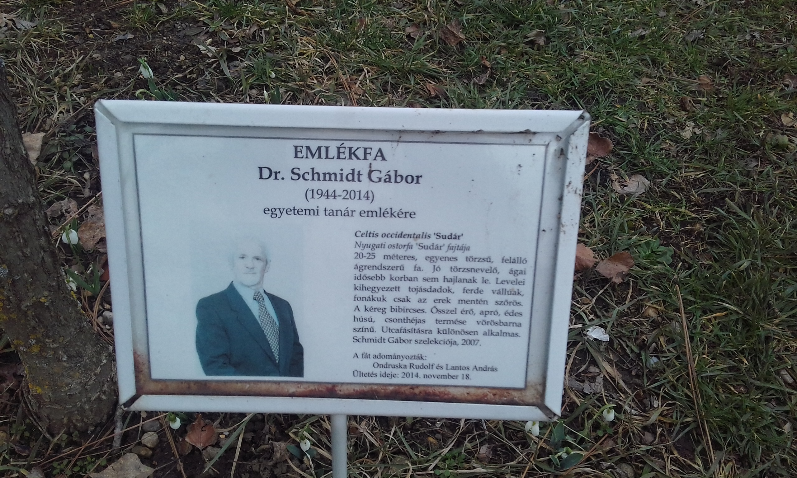 Schmidt Gábor emléktáblája a Budai Arborétumban